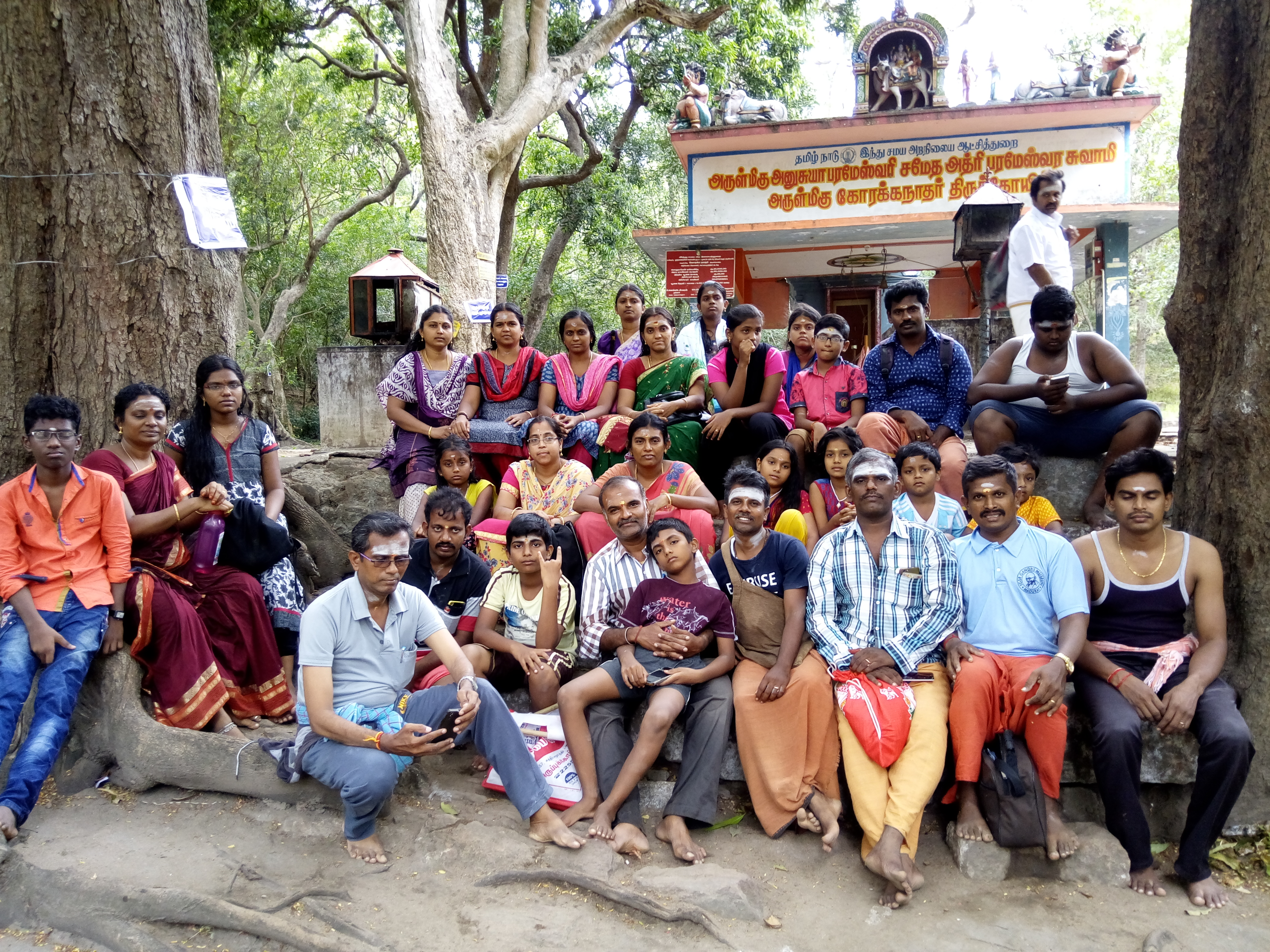 அத்ரி காேவில்